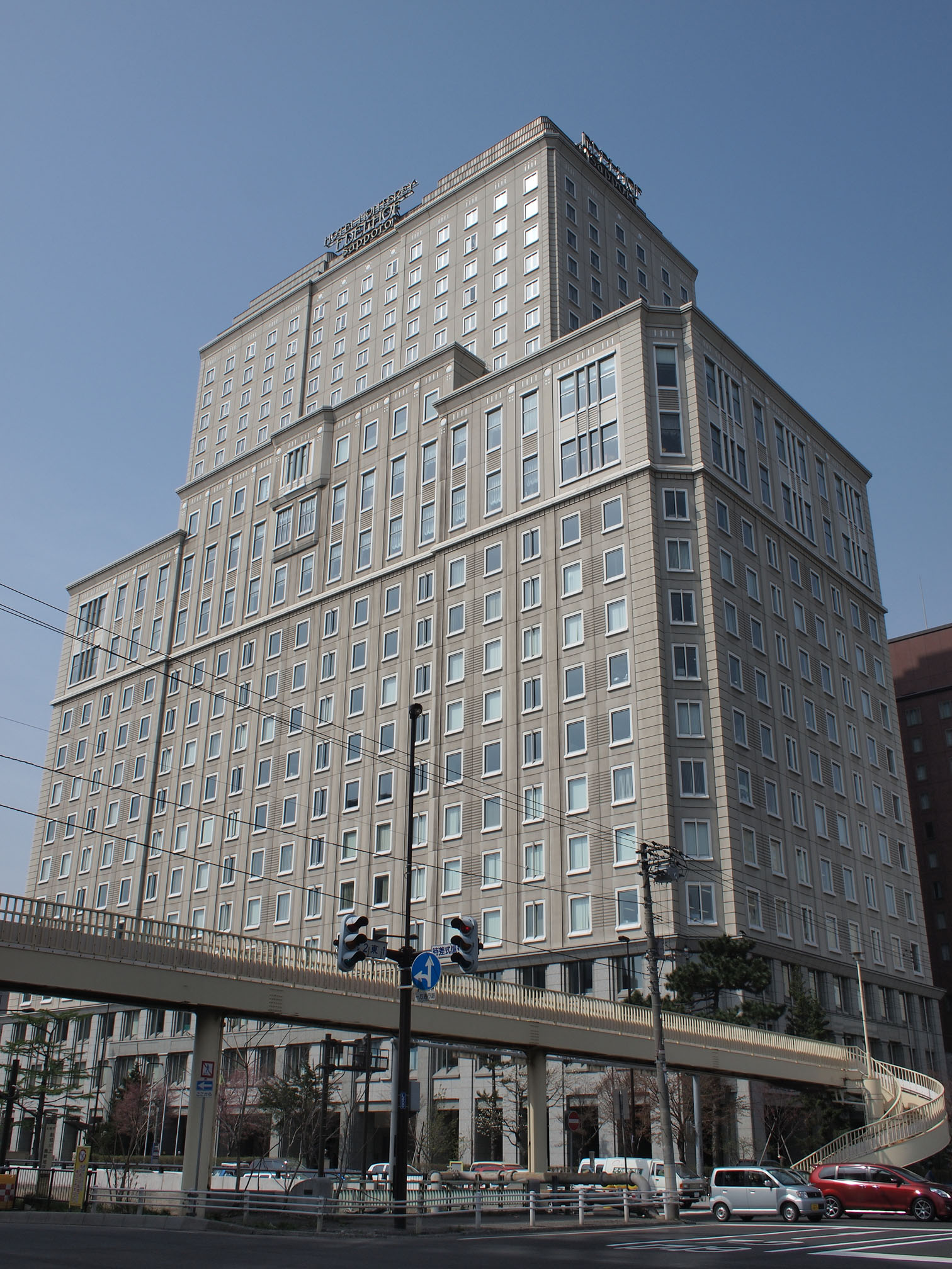 Maruito Sapporo Building, Sapporo, Hokkaido, Japan